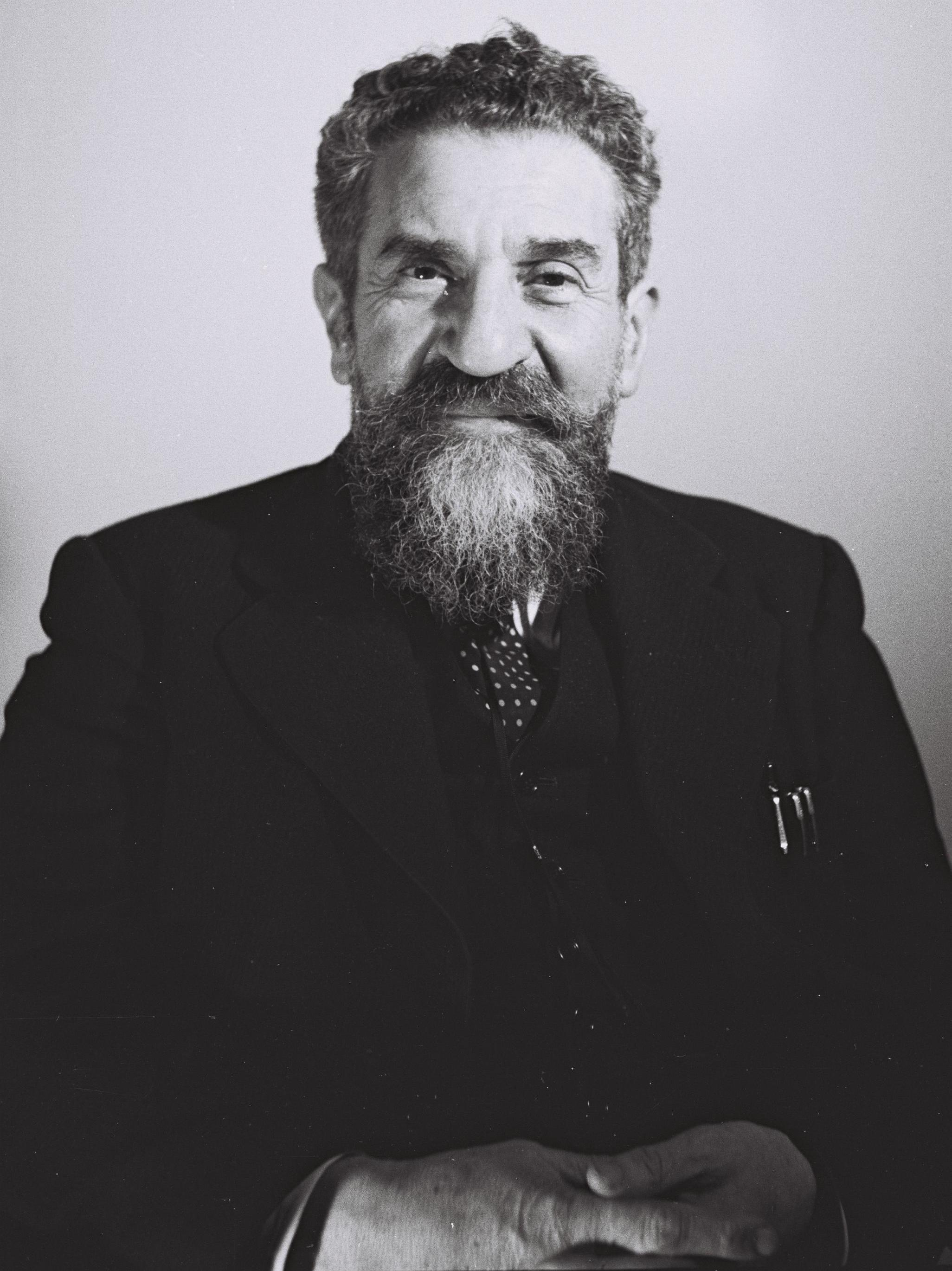 RABBI ZEEV GOLD, MEMBER OF JEWISH AGENCY EXECUTIVE